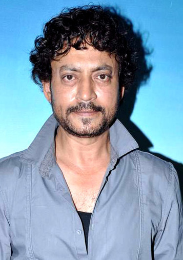 Irrfan Khan at the press conference of Ang Lee's Life Of Pi (2012) at New Delhi.